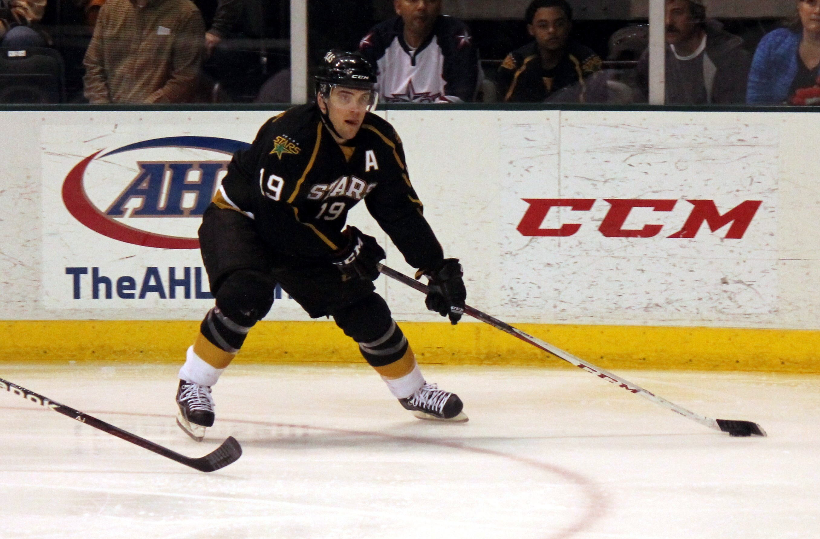 Toby Petersen of the Texas Stars